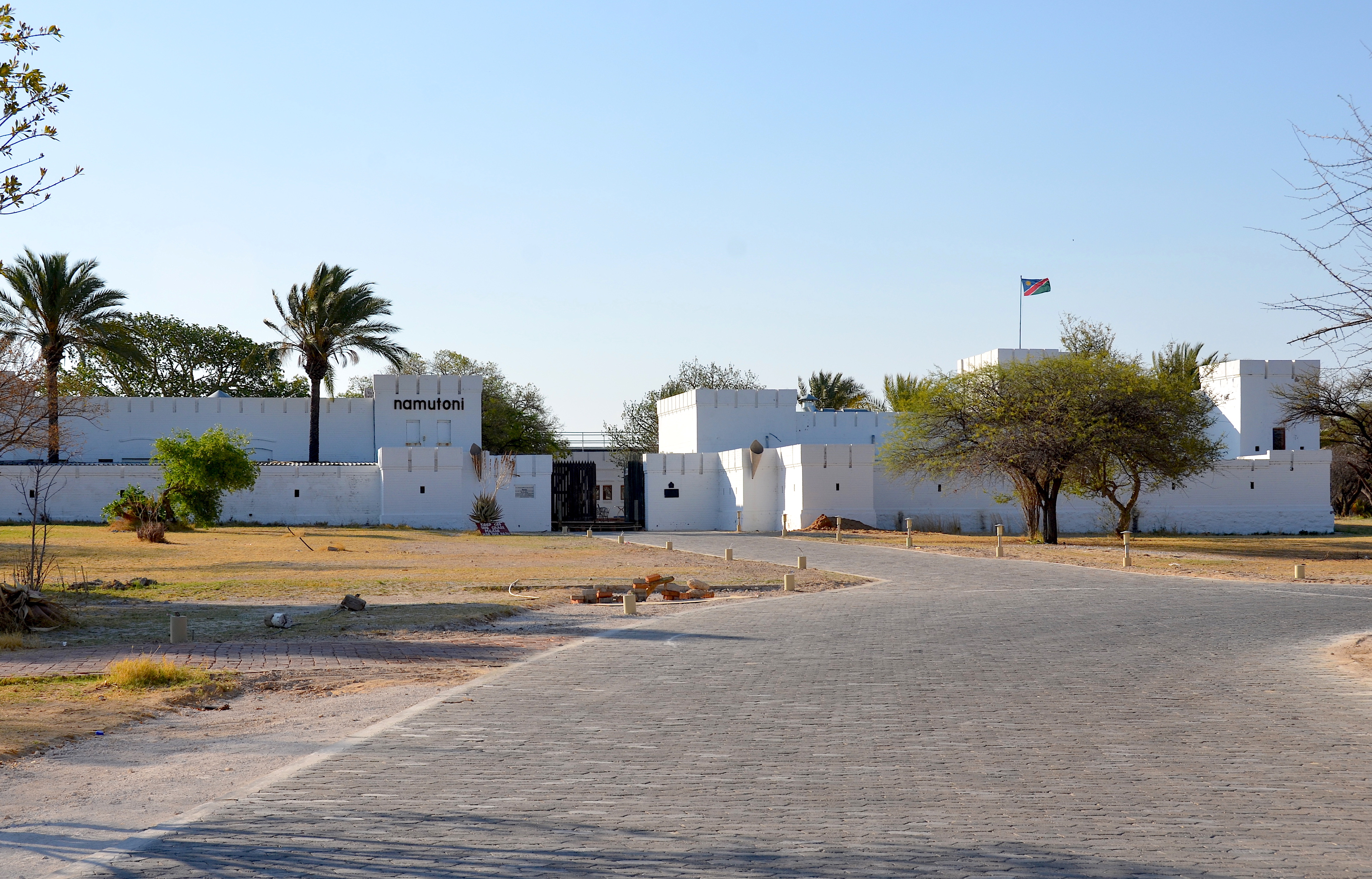 Fort Namutoni at Etosha National Park in Namibia (2014)